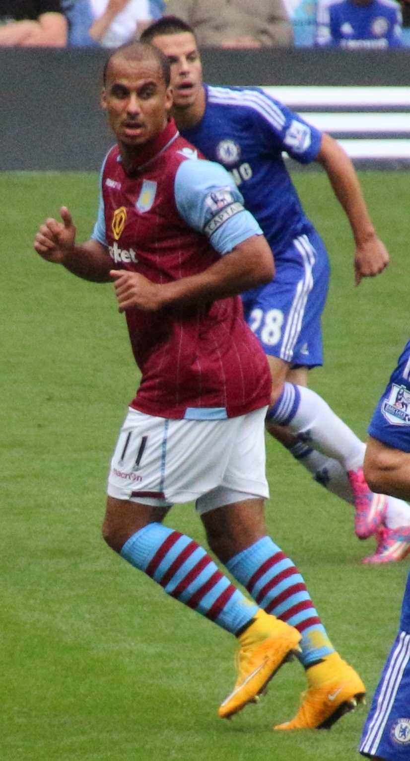 Gabriel Agbonlahor playing for Aston Villa against Chelsea at Stamford Bridge, Fulham on 27 September 2014